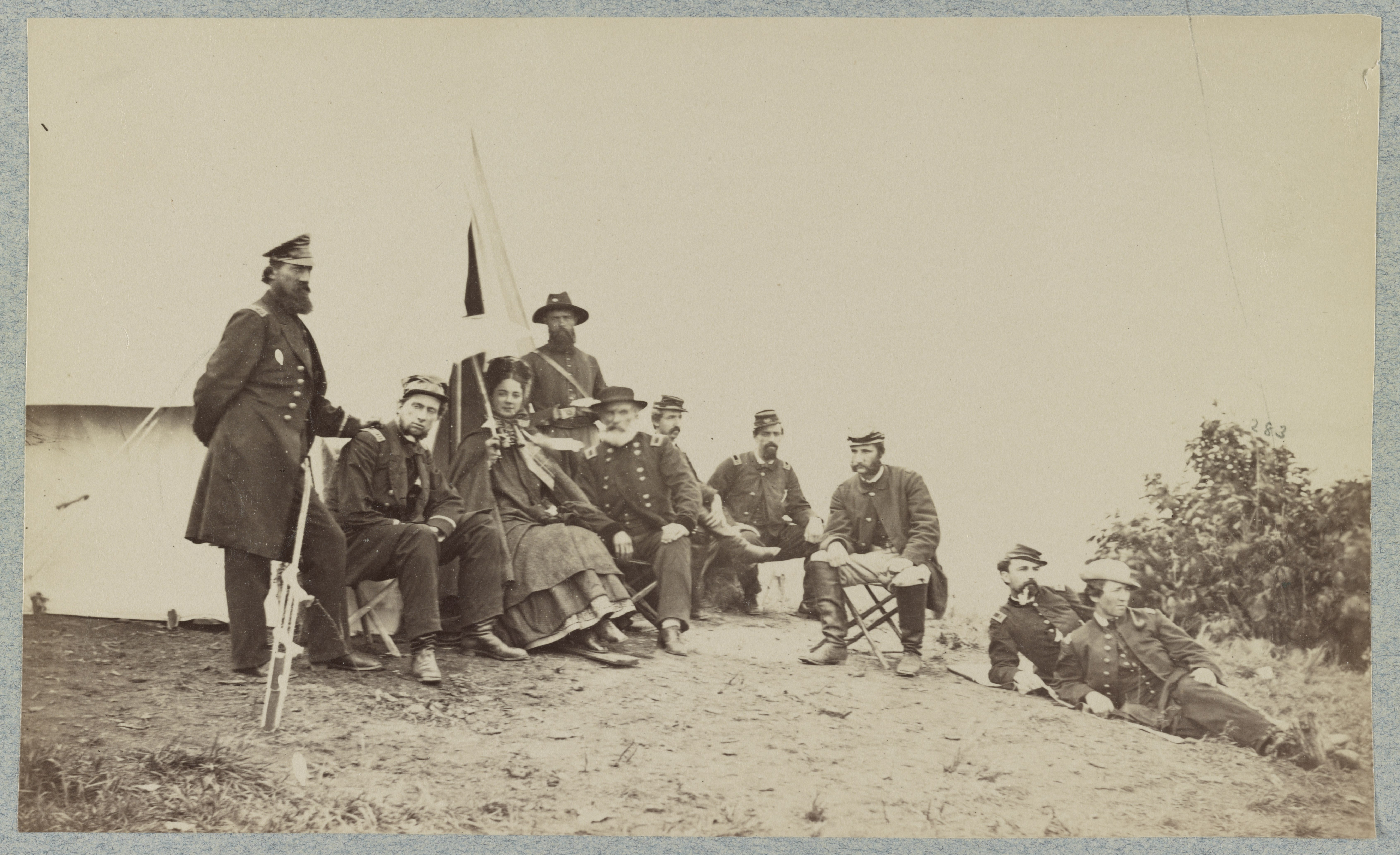 Title: Kate Chase Sprague with Gen. J. J. Abercrombie and staff Physical description: 1 photographic print on card mount : albumen. Notes: Gift; Col. Godwin Ordway; 1948.; Title from item.